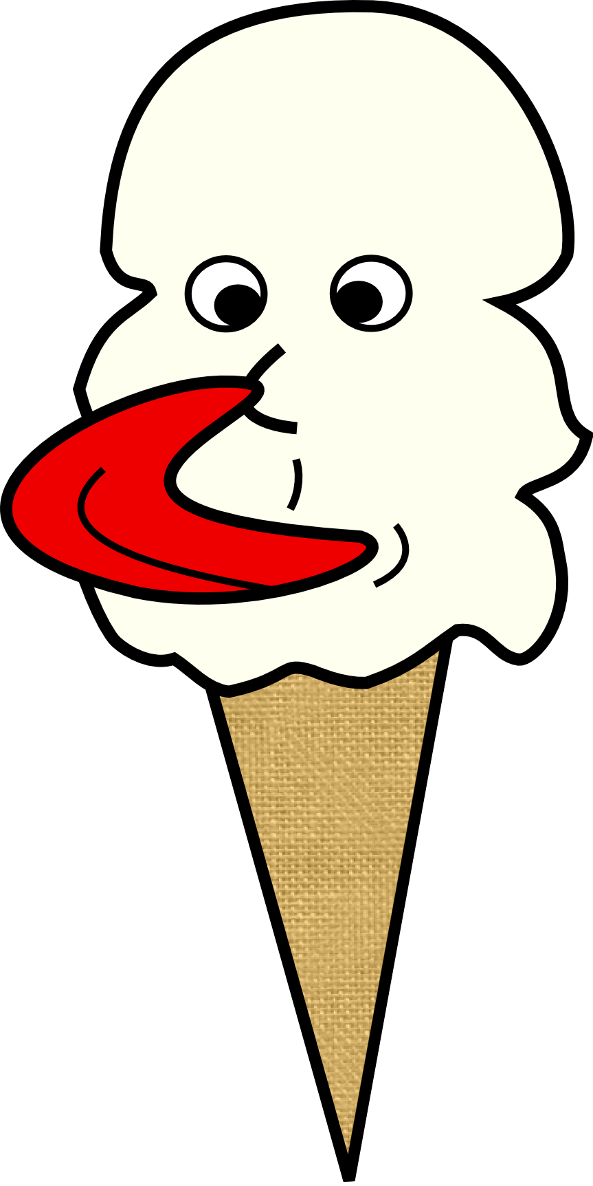 Illustration of ice cream cone licking its own nose.